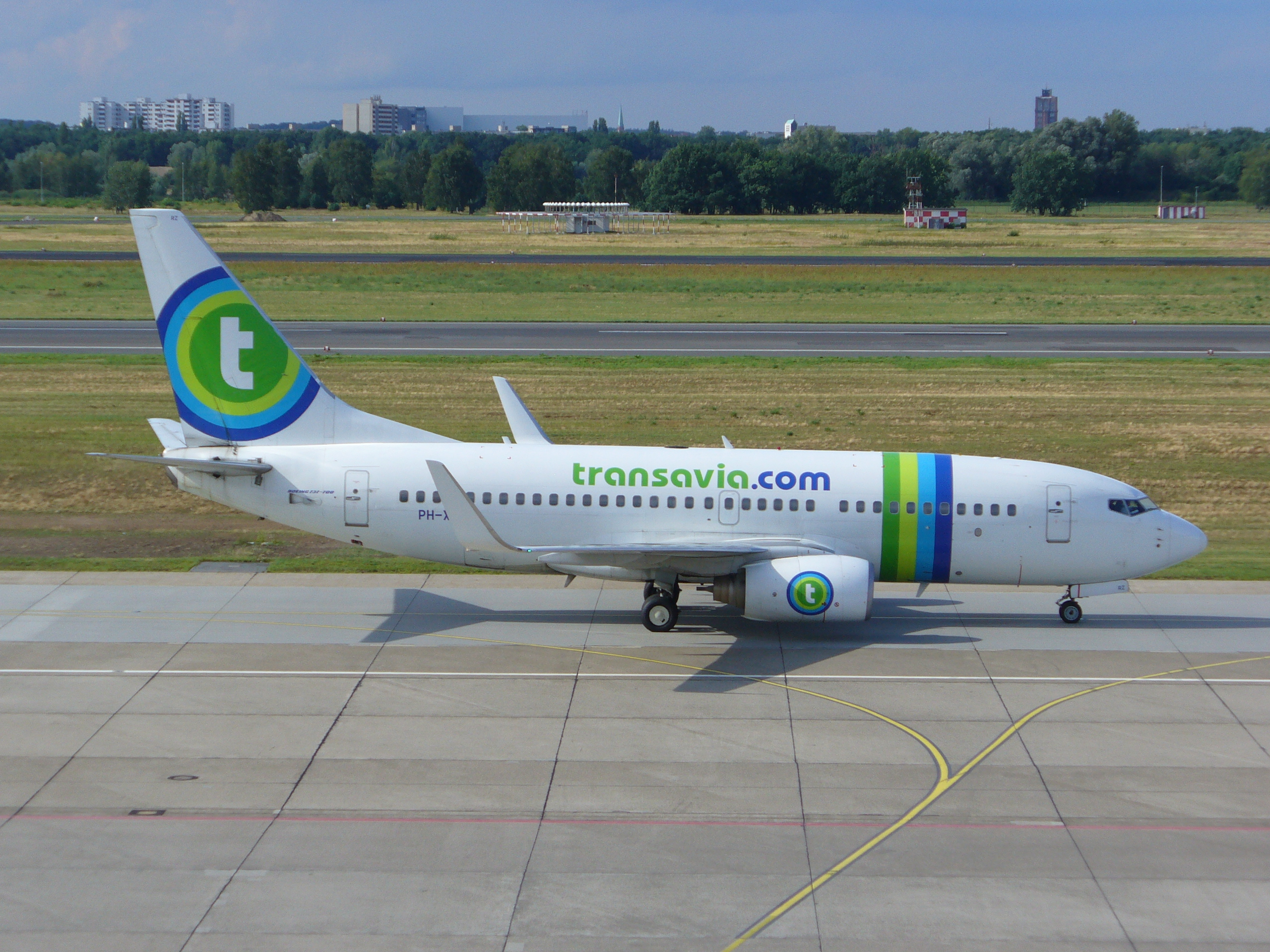 Boeing 737-700 with Winglets of at Berlin Tegel Airport